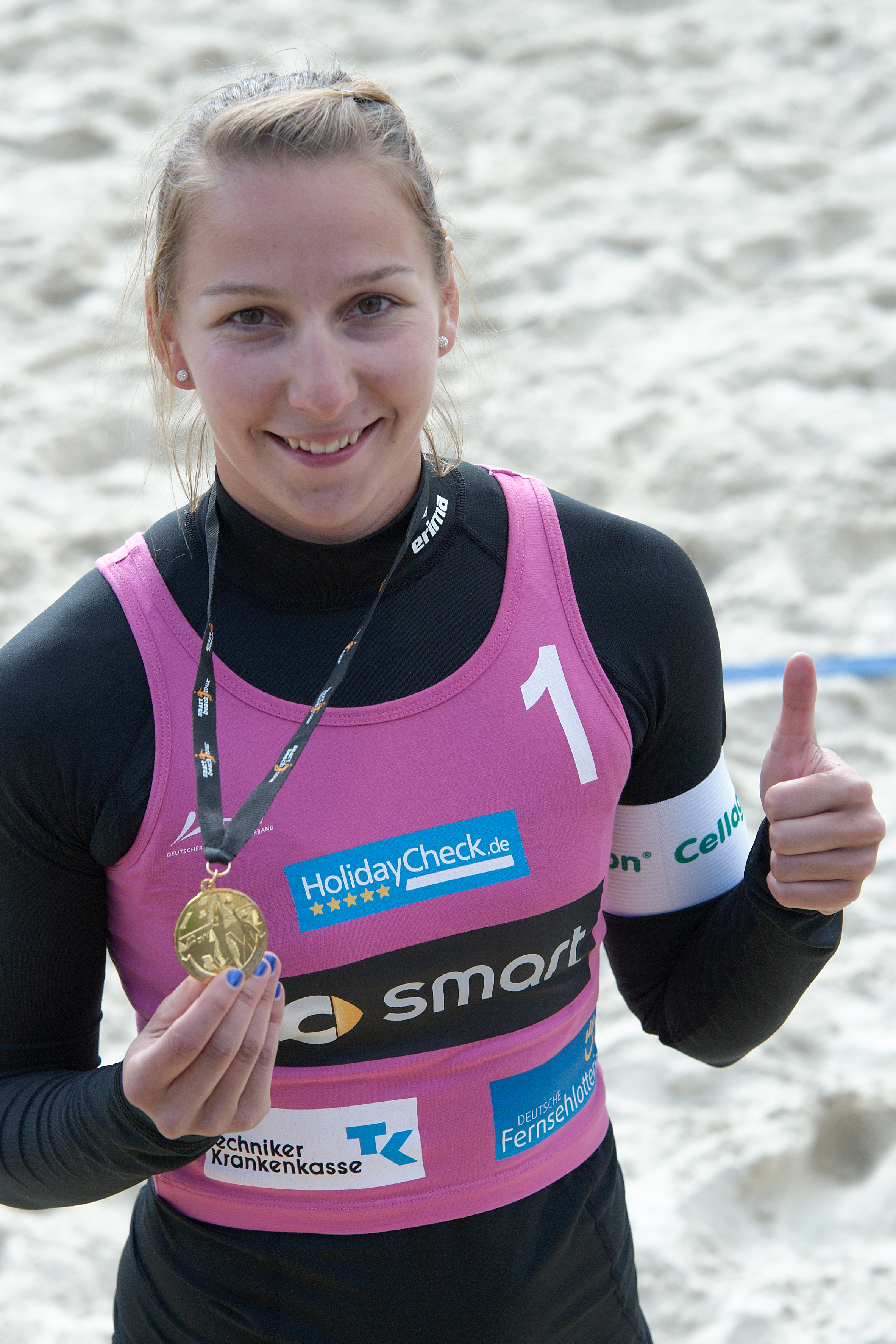 The German beach volleyball player Julia Großner at the Smart Beach Tour tournament in Münster 2012.